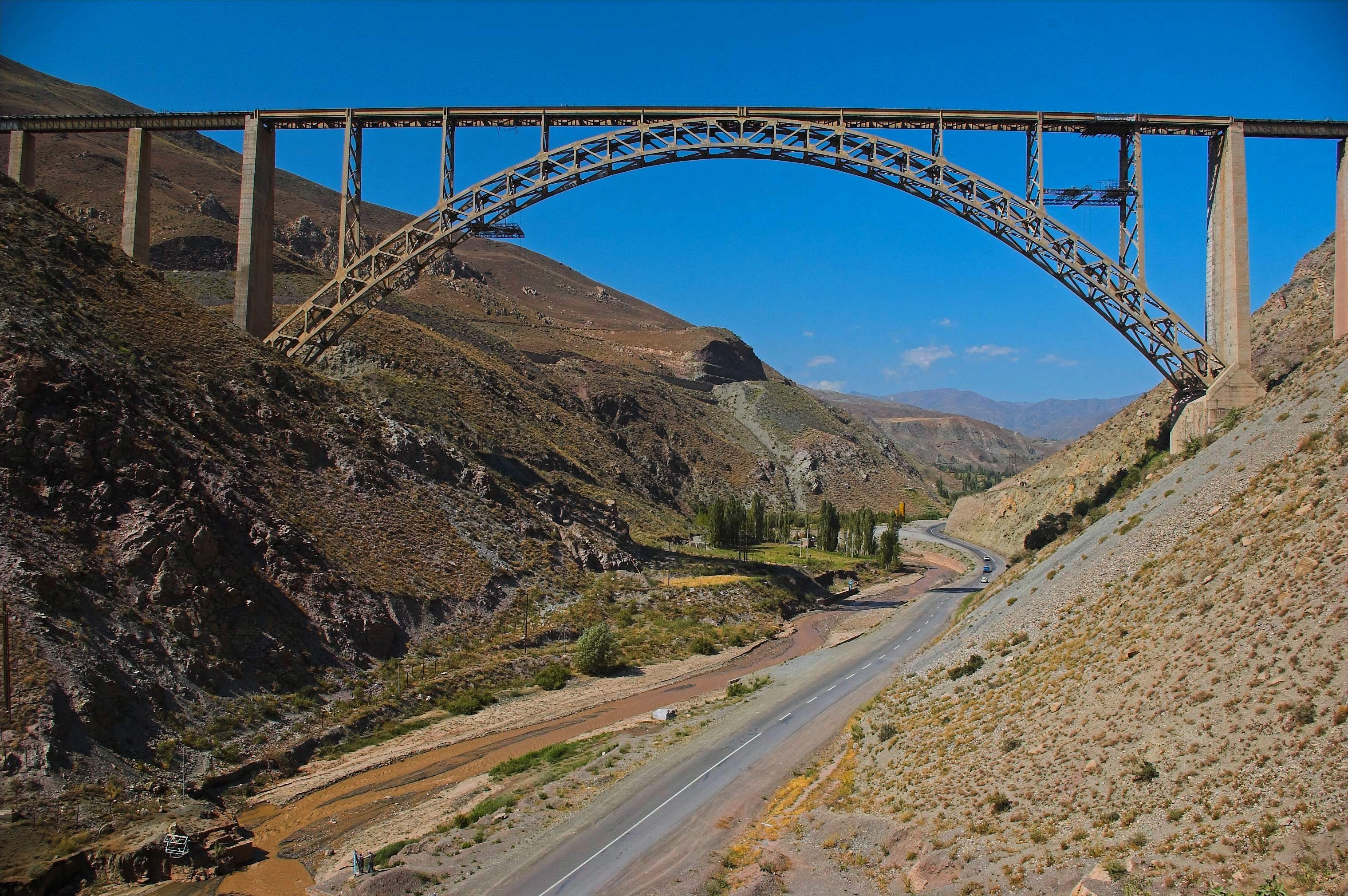 Railway bridge (locally named Pol-e Havâi) between Khoy and the turkish border. Part of the Turkey-iranian railway. Eastern Azerbaijan, Iran